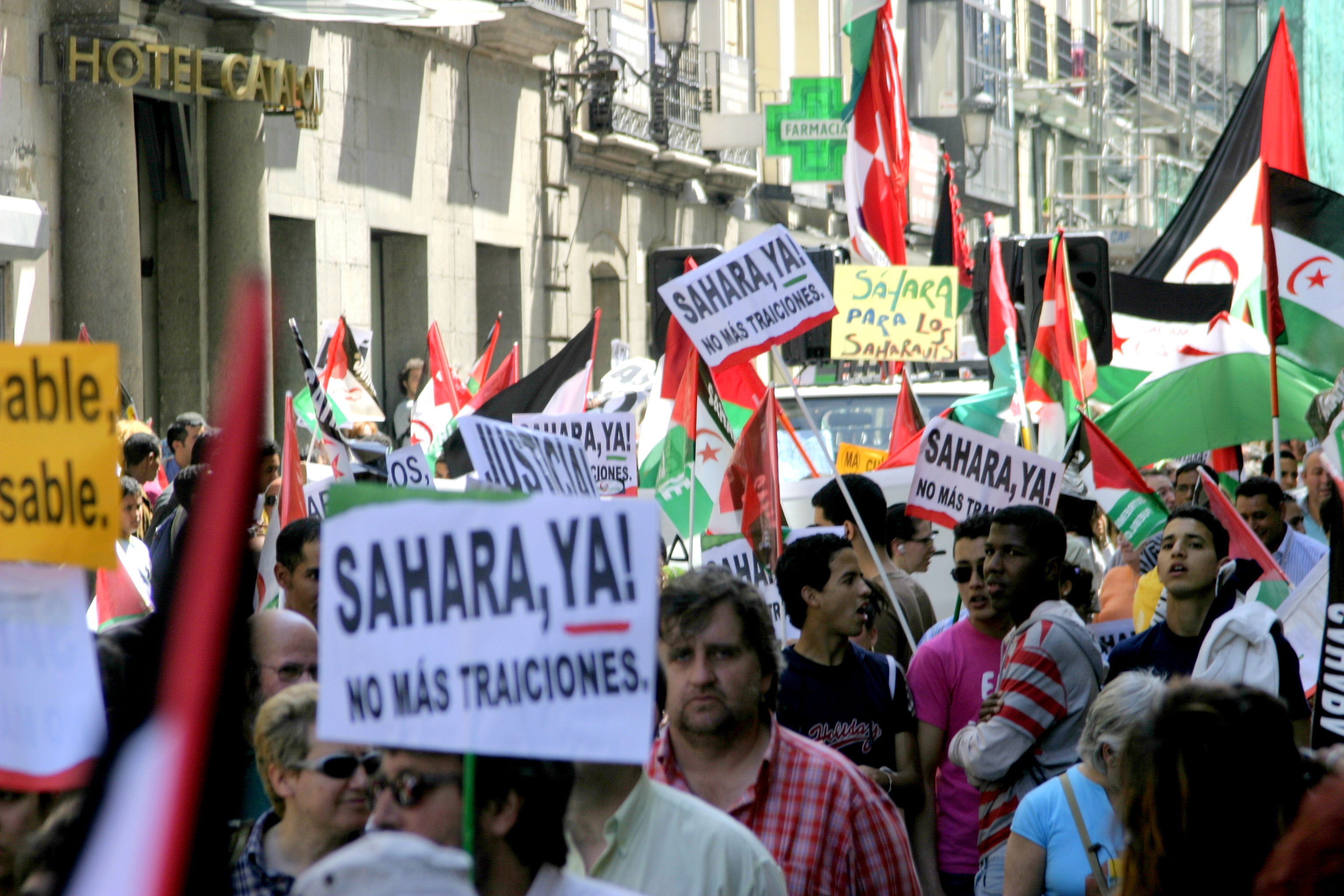 Demonstration in support of the independence of Western Sahara in Madrid (21 April 2007) 097